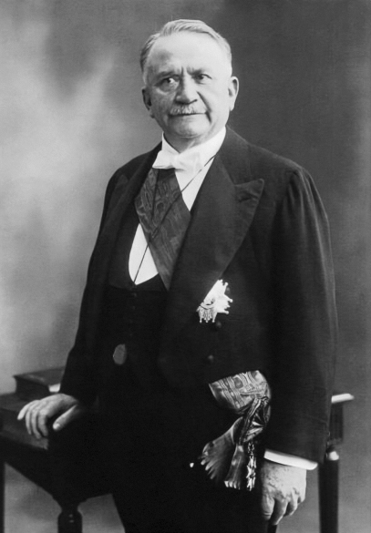 French President Gaston Doumergue (1863-1937) as Grand Maître de la Légion d'Honneur in 1924.